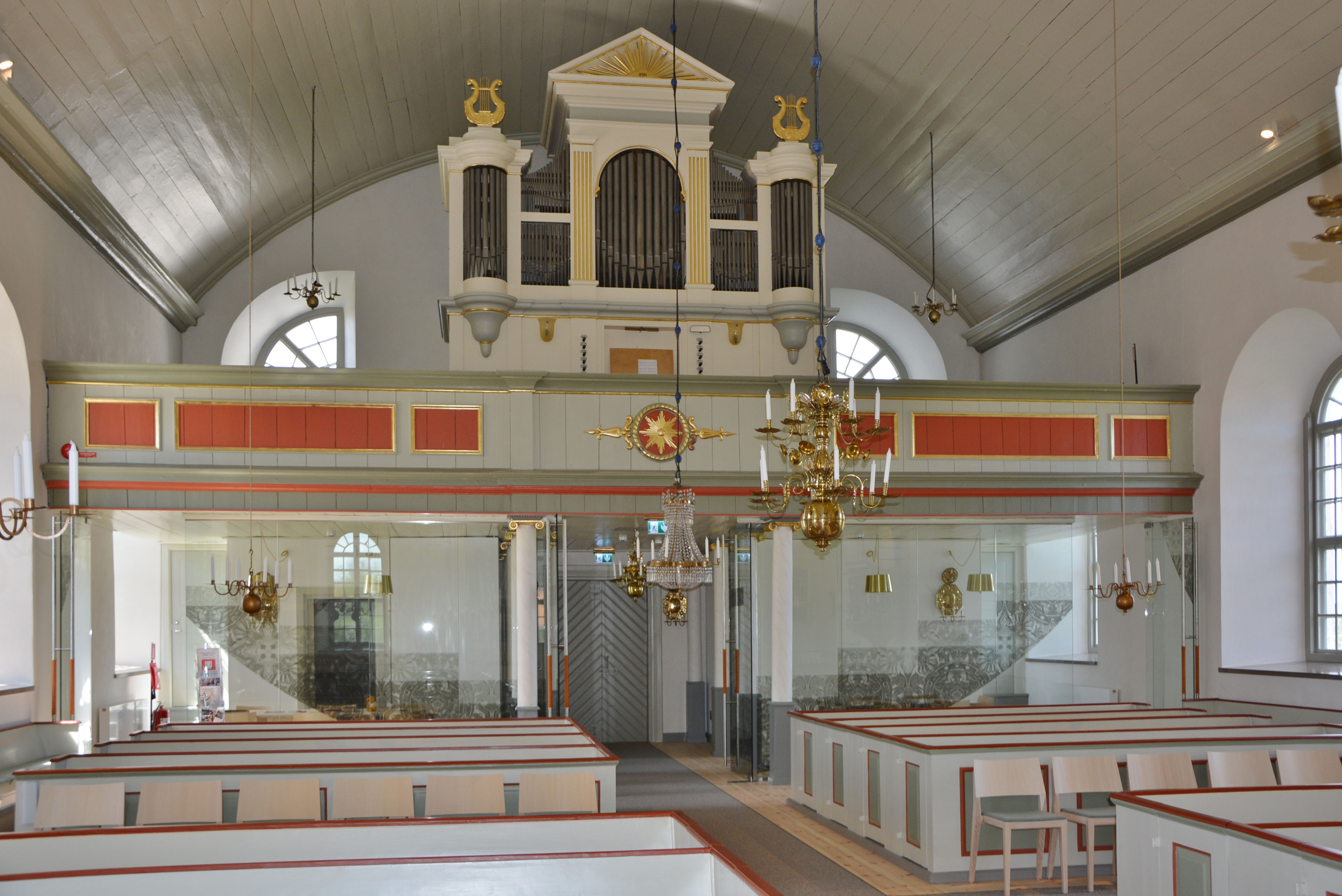 Gårdby Church.Interior